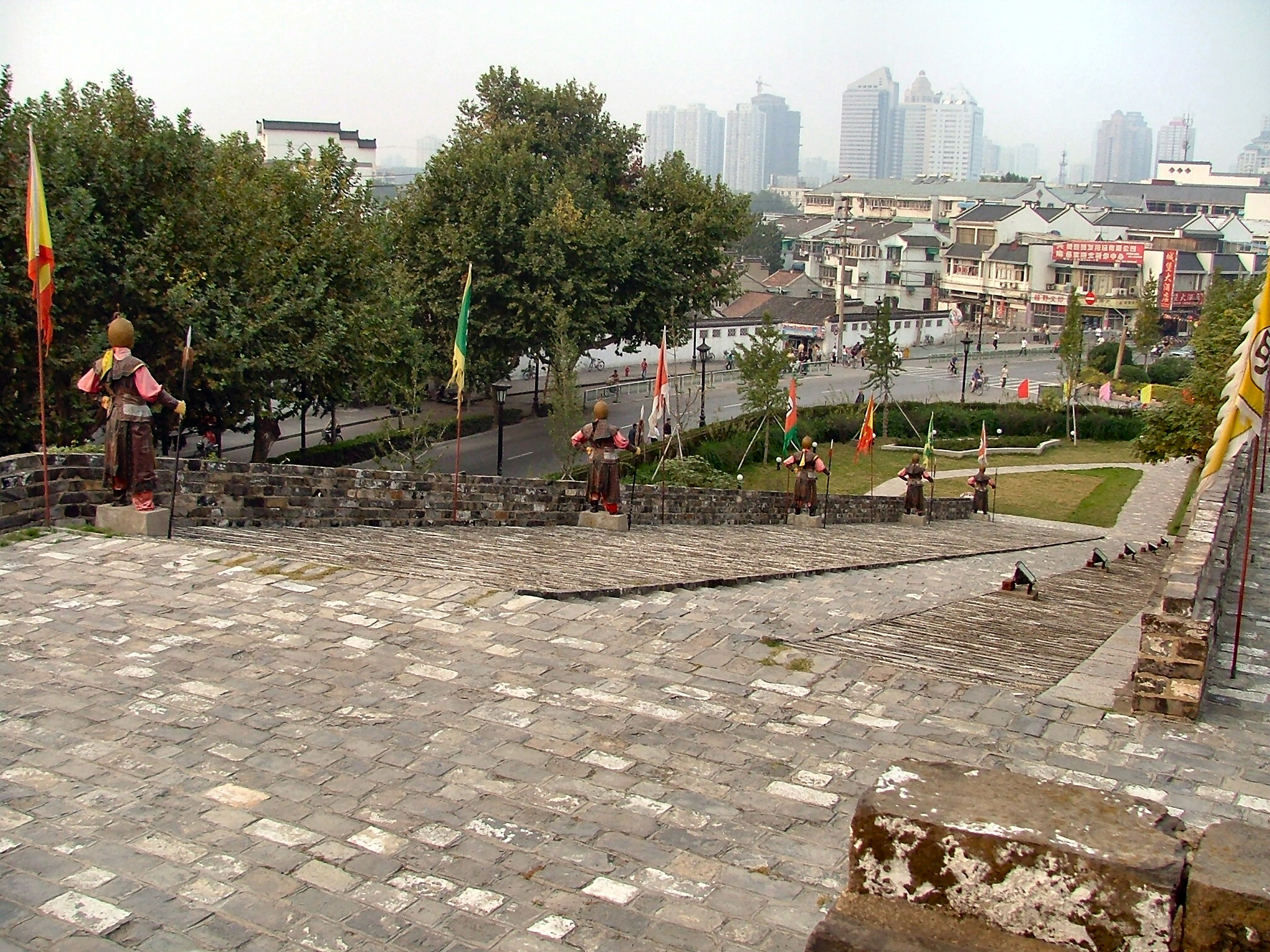 Author: Kanga35